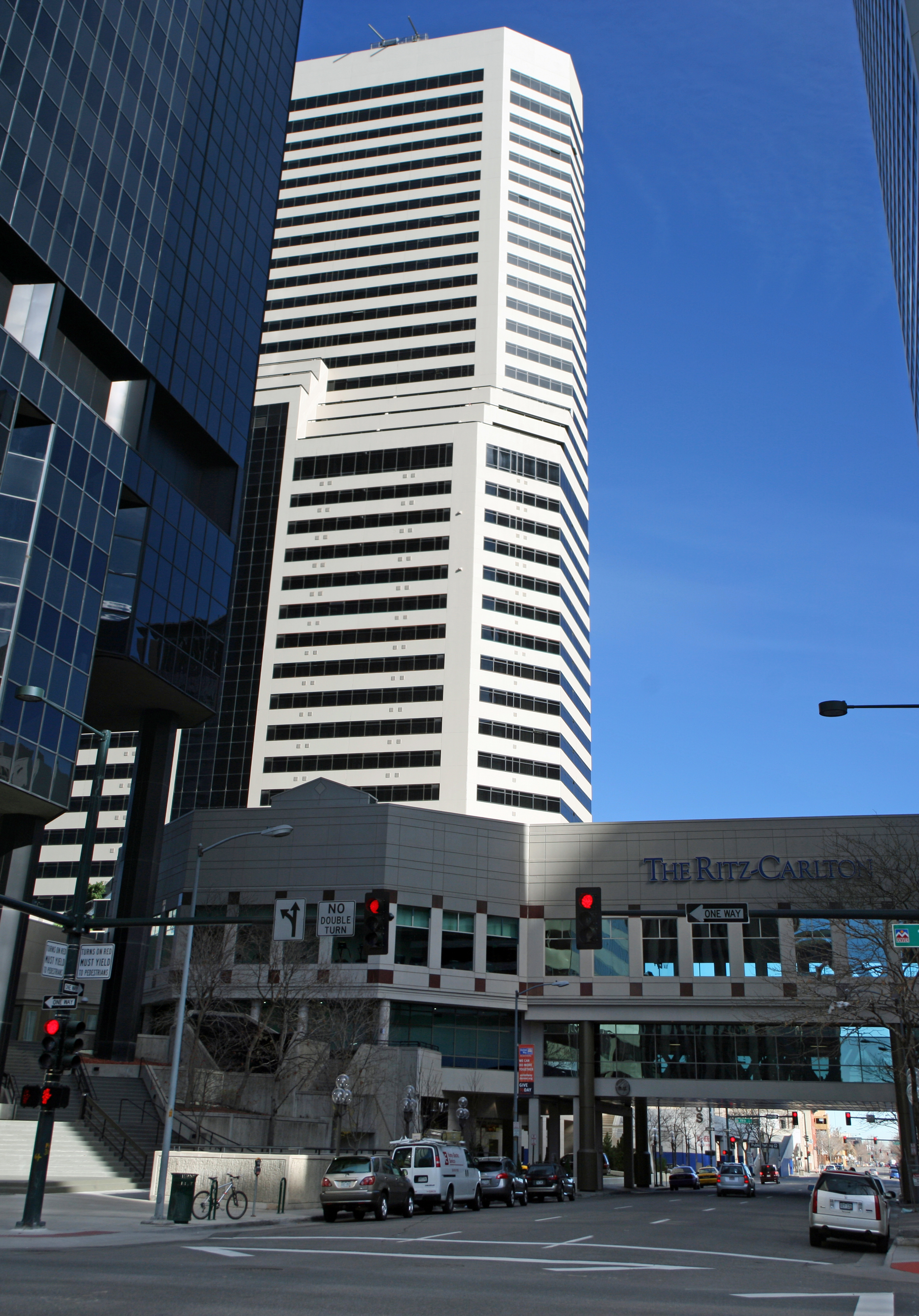 The Ritz Carlton Hotel in Denver, Colorado.